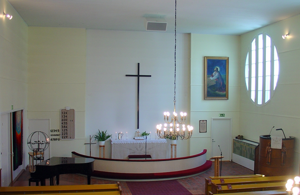 Altar of the Säyneinen Church in Juankoski, Finland